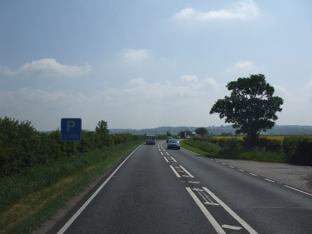 A17 eastbound crossing Leadenham low fields